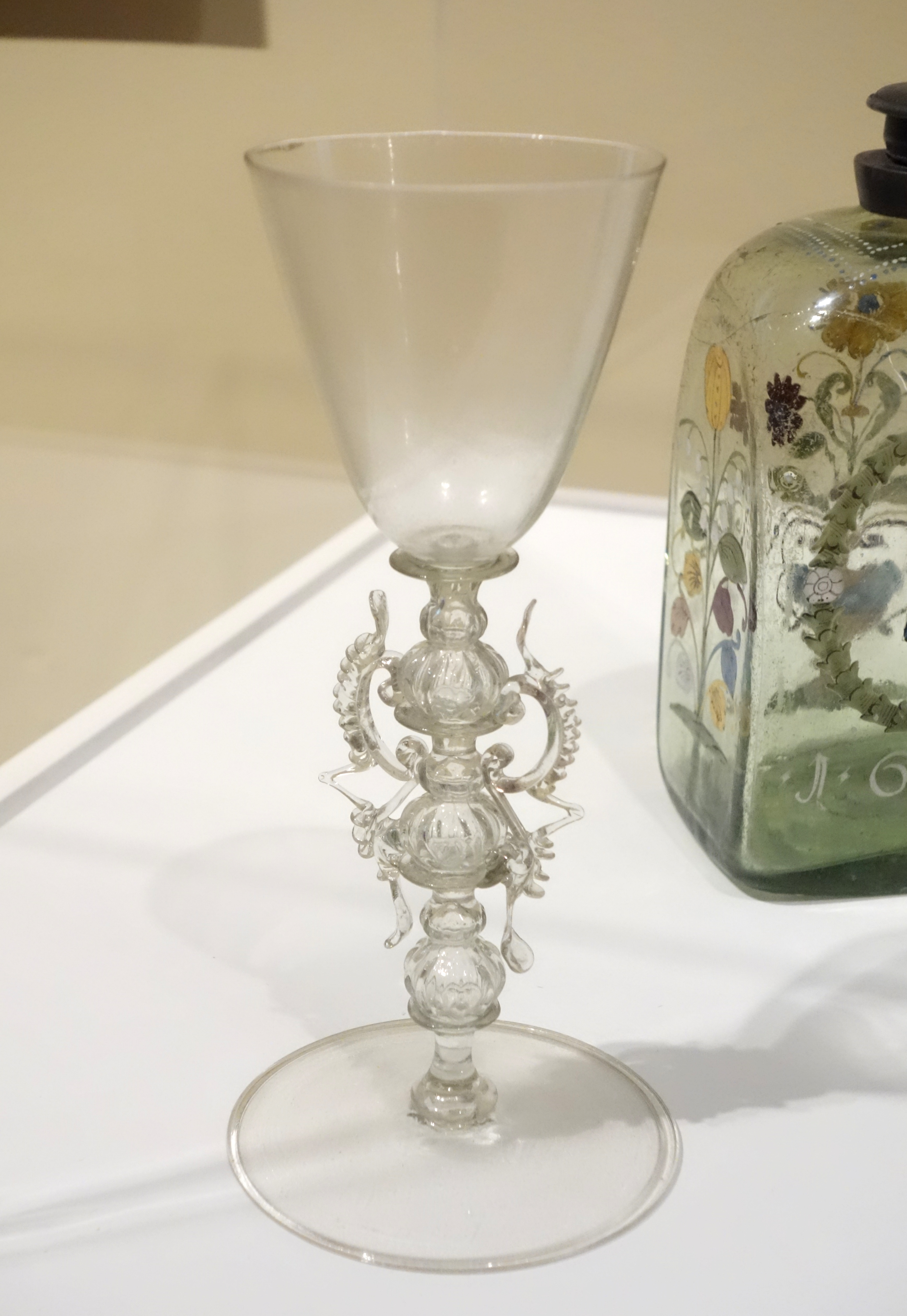 Exhibit in the Brooklyn Museum - Brooklyn, New York, USA. This artwork is in the public domain because the artist died more than 70 years ago.